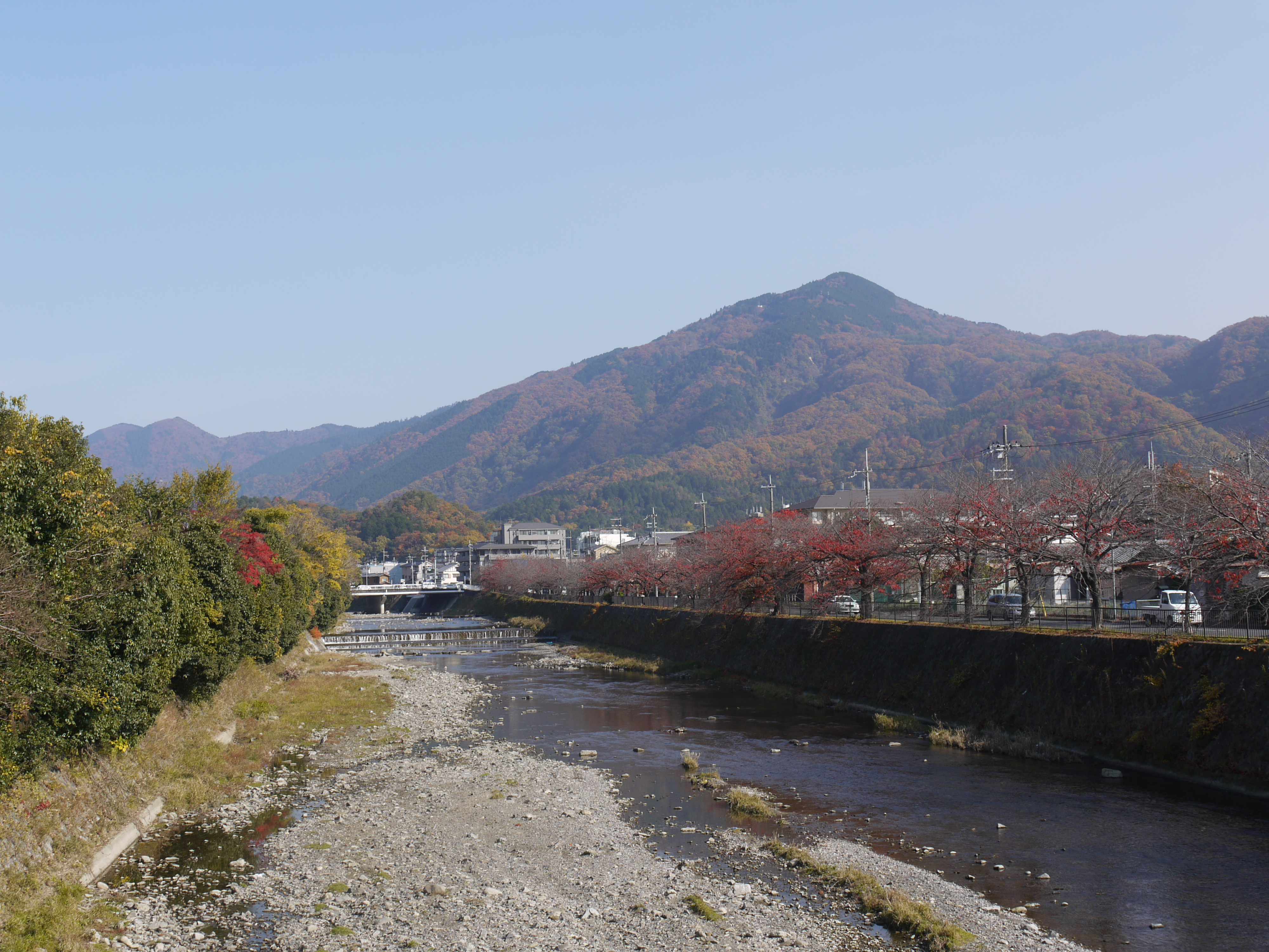 Mount Hiei in autumn, from Umahashi over Takano river. Leaves on the mountain turns red.